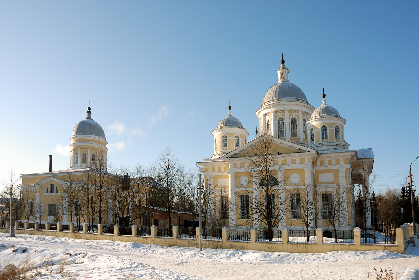 Torzhok, Church of the Entry into Jerusalem and Transfiguration Church as seen from the Tvertsa River Embankment.